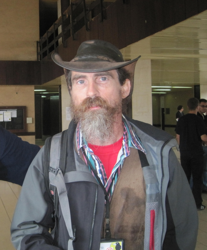 Rob_Savoye